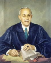 Simon Sobeloff